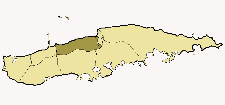 Map of Vieques (Puerto Rico) highlighting Florida ward